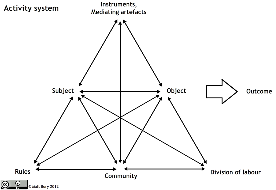 Illustrative diagram of Scandinavian activity network